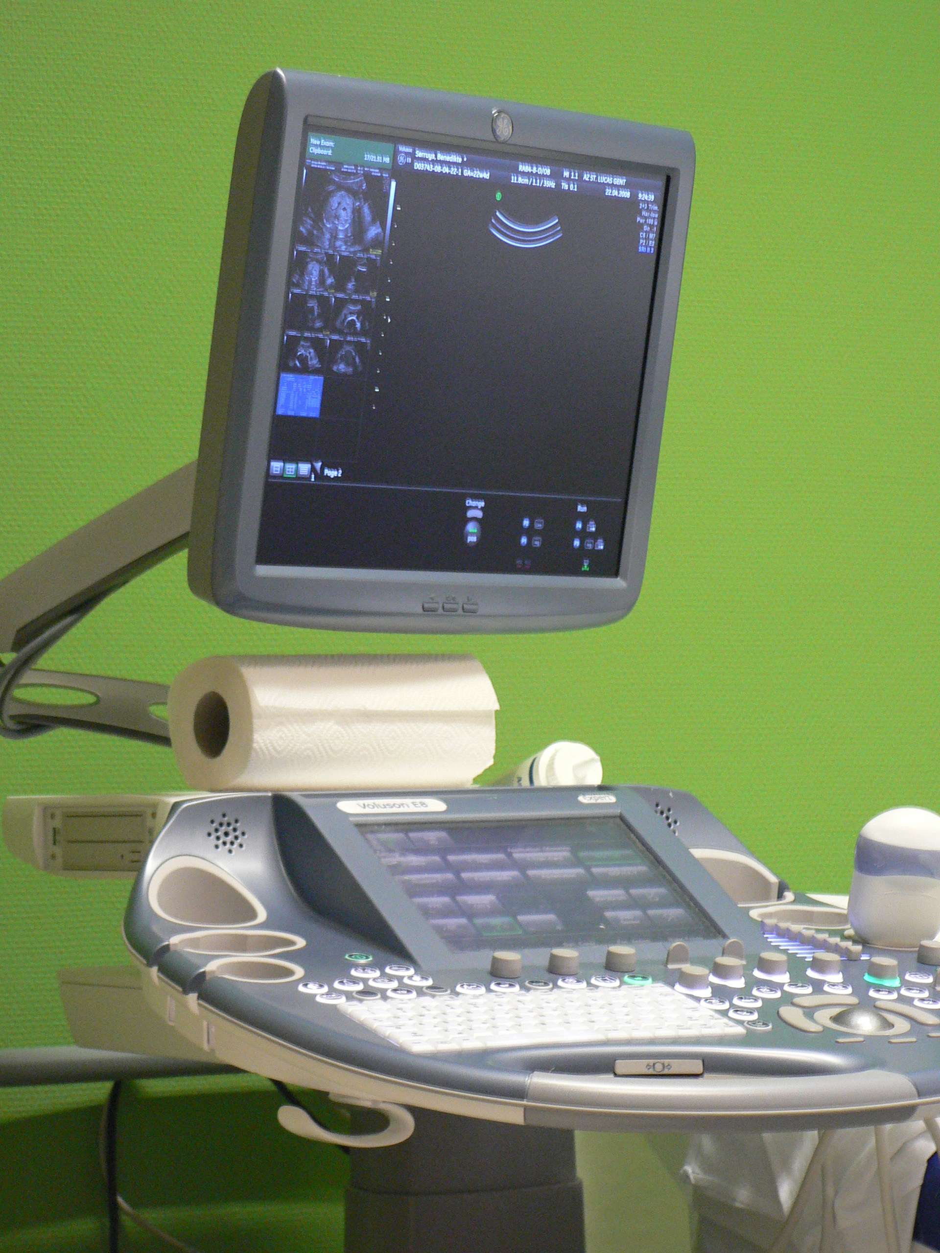 echography device (ultrasound) test2 test3